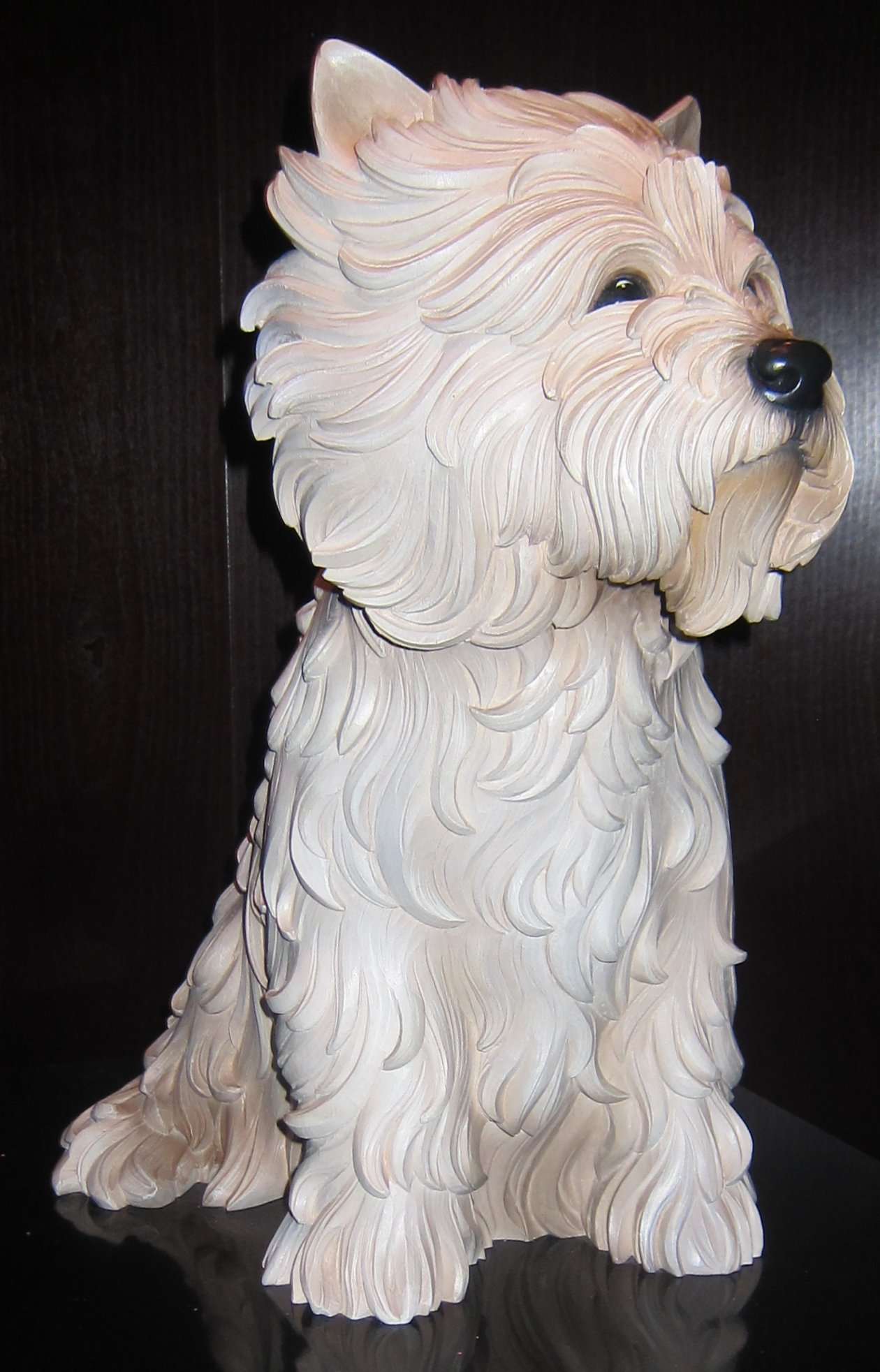 White Terrier, polychromed wood sculpture by Jeff Koons, 1988, permanently installed in a public room of the Celebrity Eclipse, a cruise ship that flies the flag of Malta